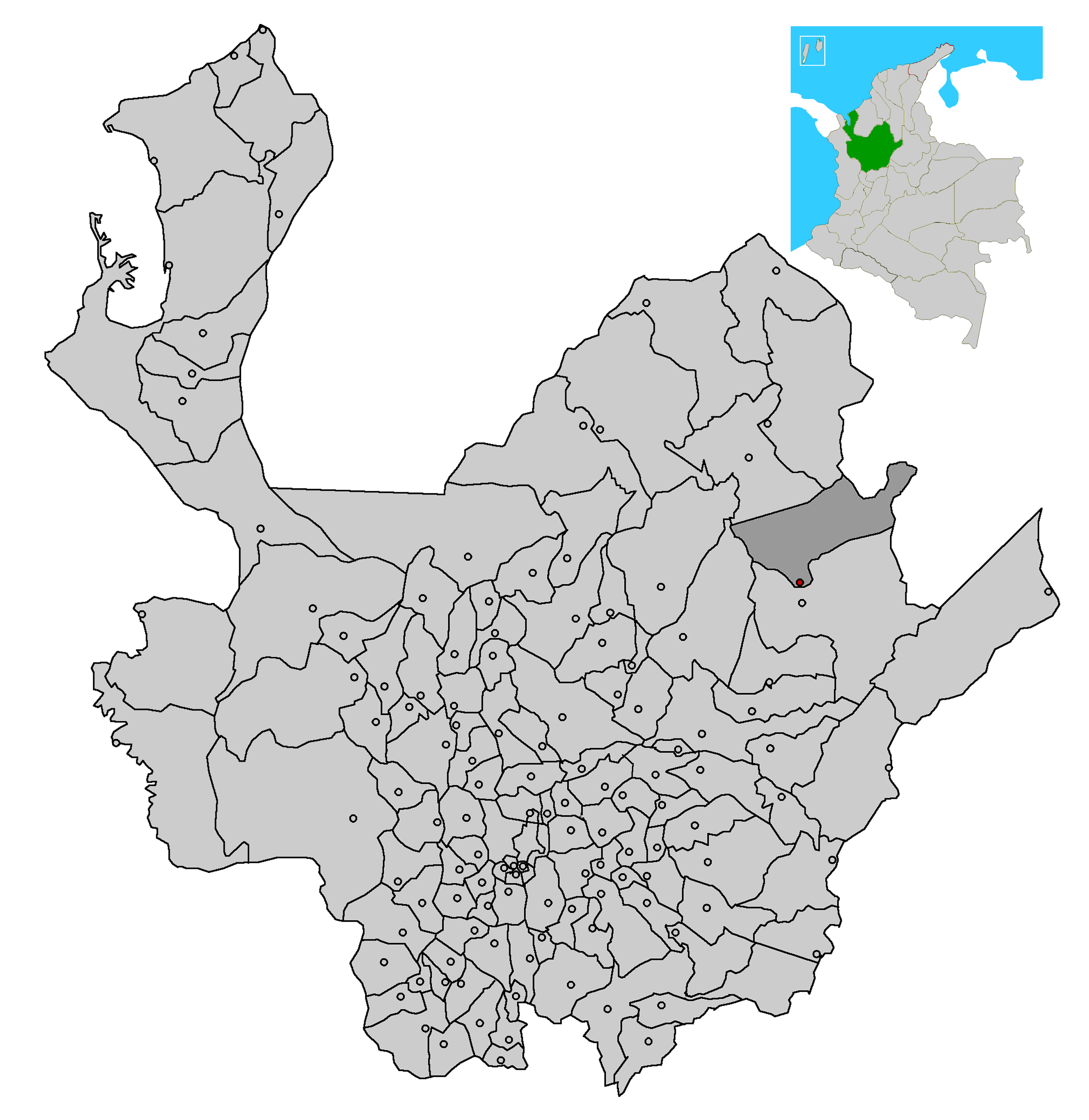 Image depicting map location of the town and municipality of Segovia in Antioquia Department, Colombia